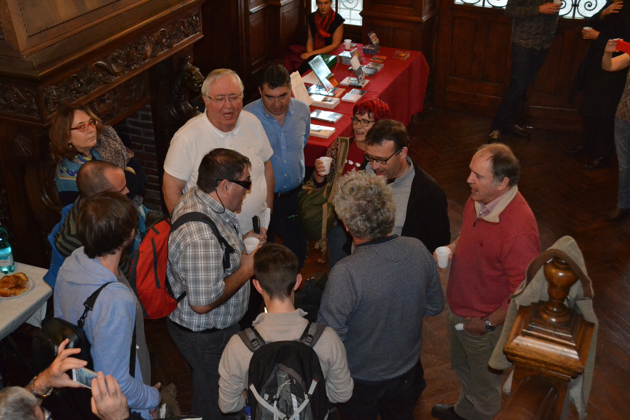 "Cantèra" during the First Annual Seminary about France Ethnomusicology organised by InOc Aquitaine.